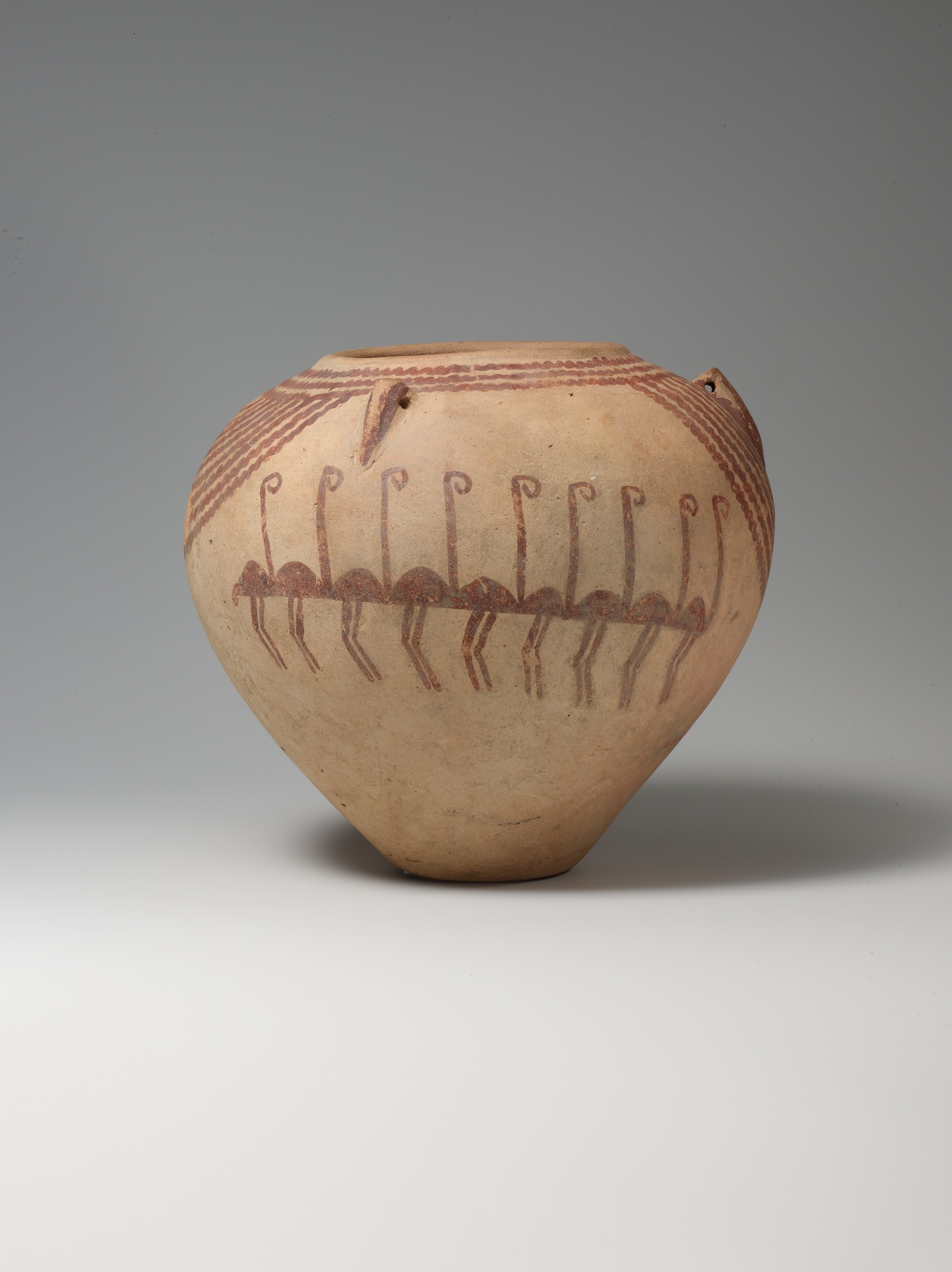 Jar, decorated ware, flamingos